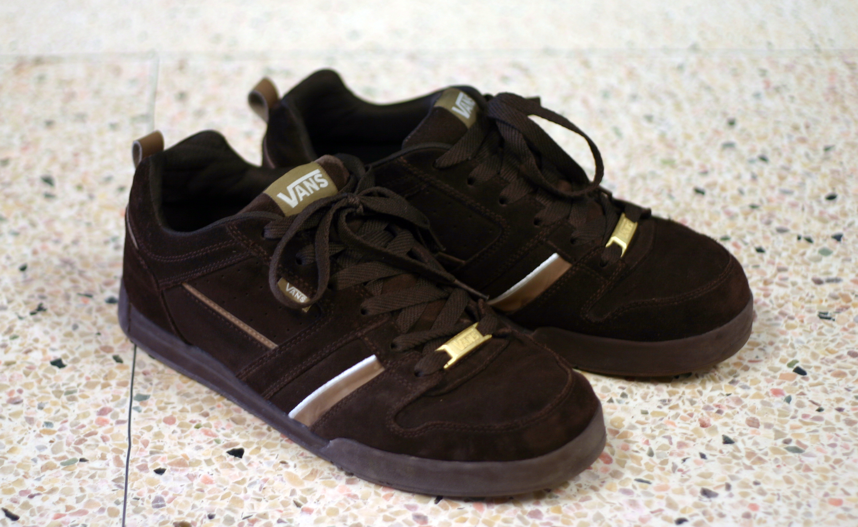 A pair of Vans shoes.